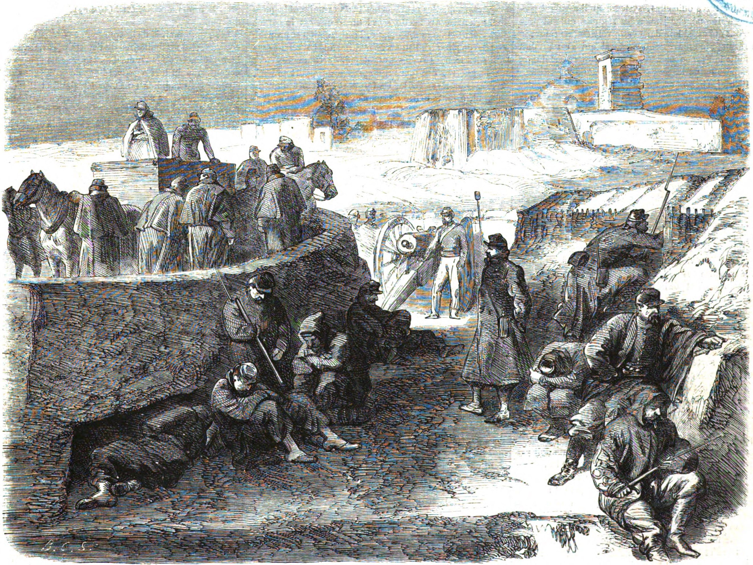 Battle of Puebla, 1863